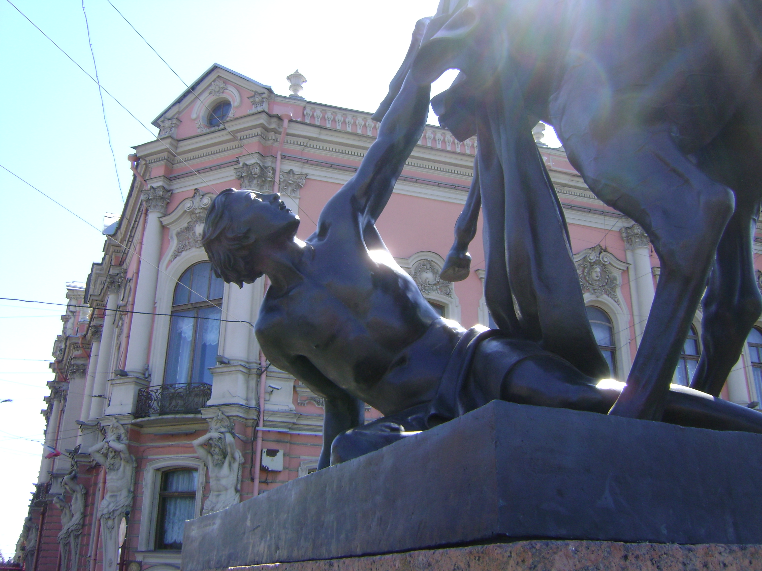 Anichkov Bridge